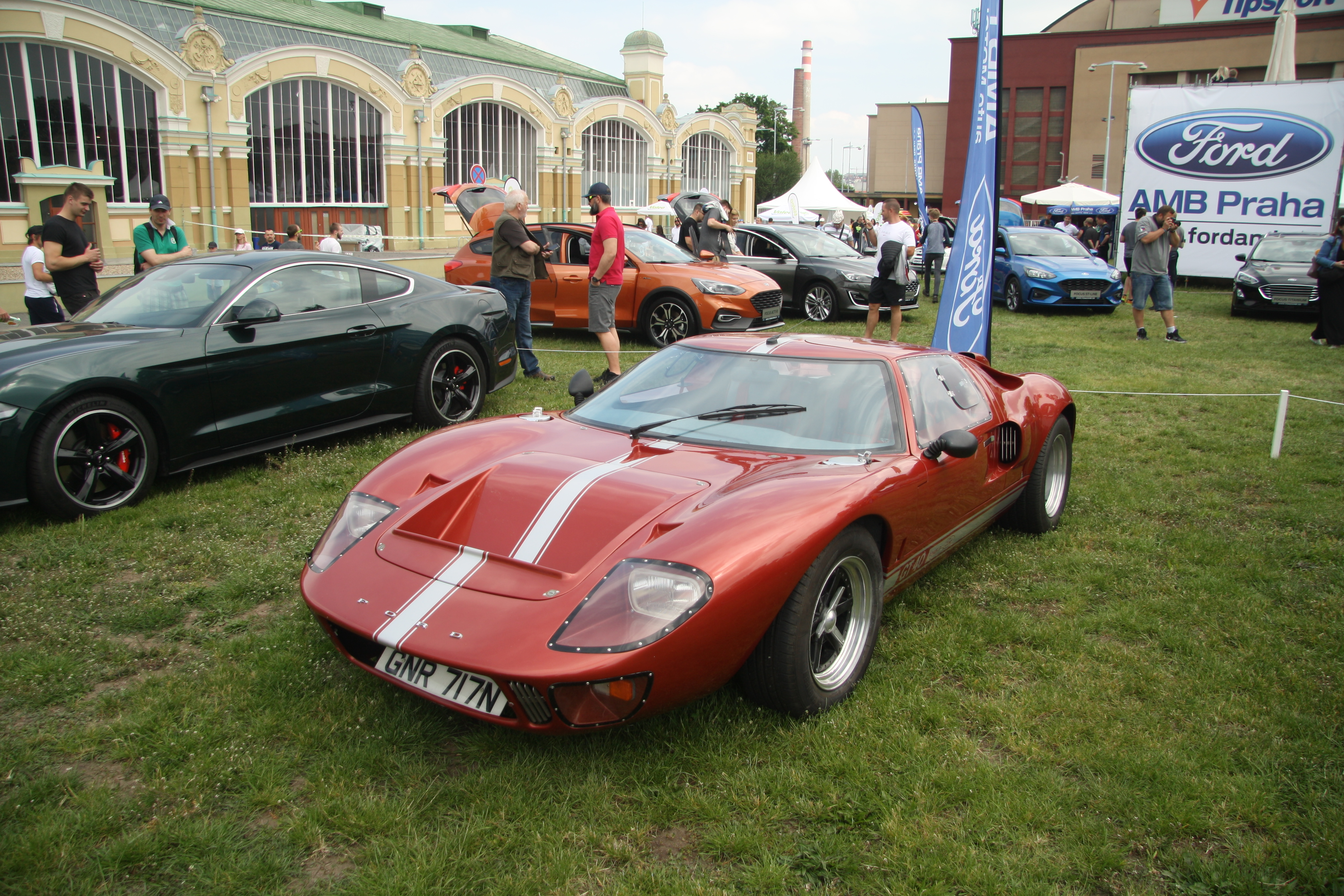 Ford GT at Legendy 2019 in Prague.